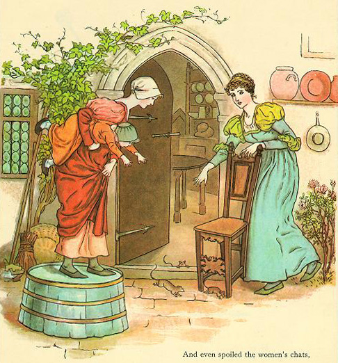 Illustration from The Pied Piper of Hamelin